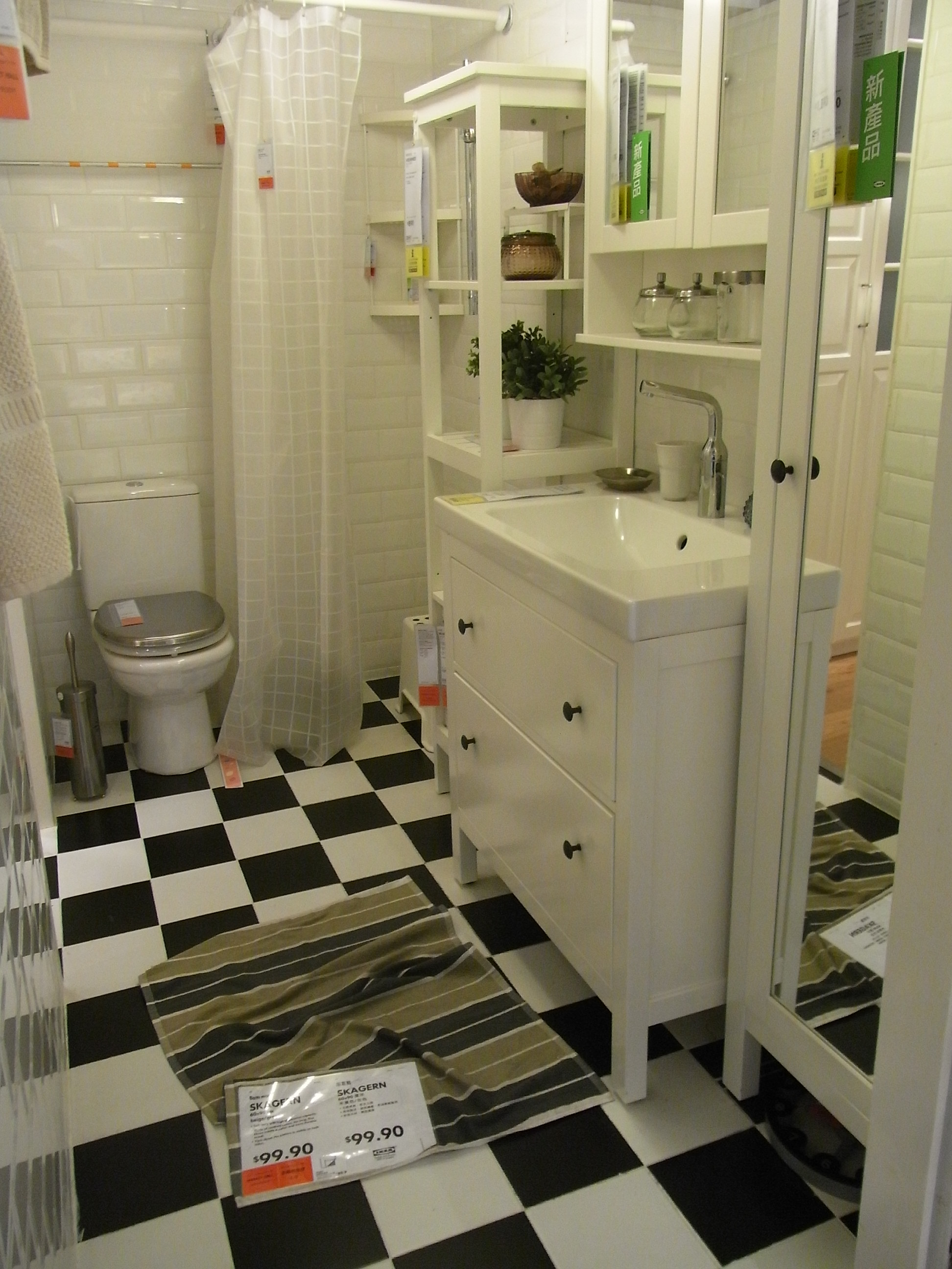 宜家傢俬 @ 銅鑼灣柏寧酒店, IKEA Hong Kong, Park Lane basement, Causeway Bay, Hong Kong